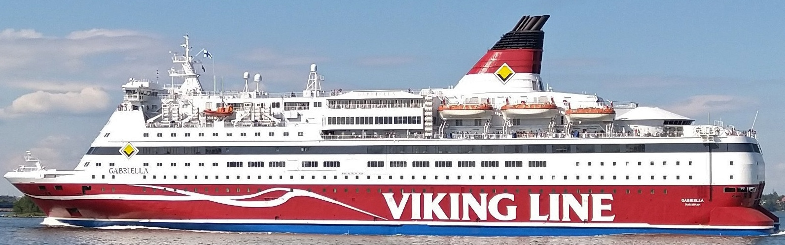 M/S Gabriella near Suomenlinna